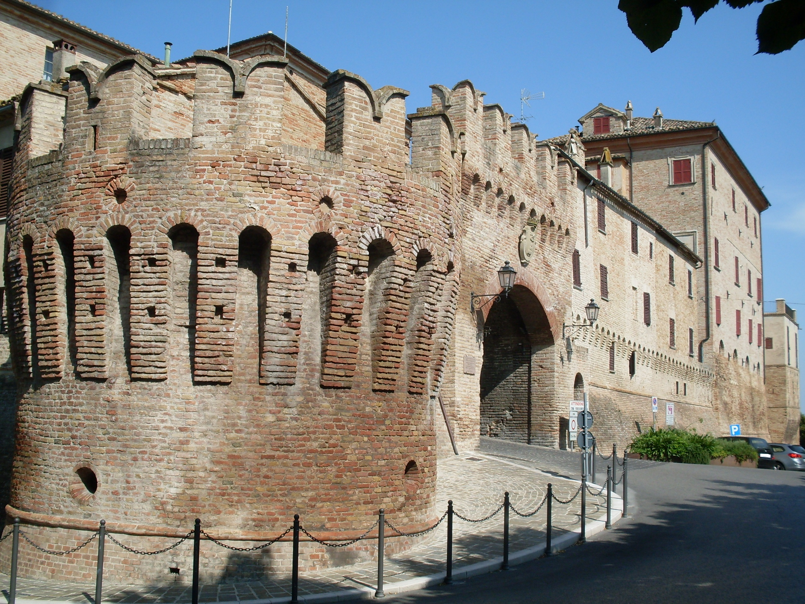 Porta Nuova Corinaldo